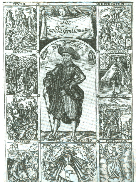 A page from Brathwait's book that displays the qualities associated with being a gentleman